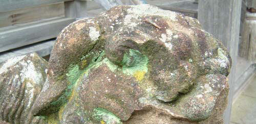 leprosy lichen